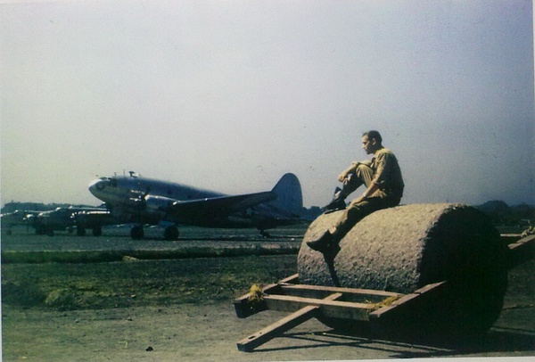 William L. Dibble was sitting on a roller in Baishiyi Airport, Chongqing